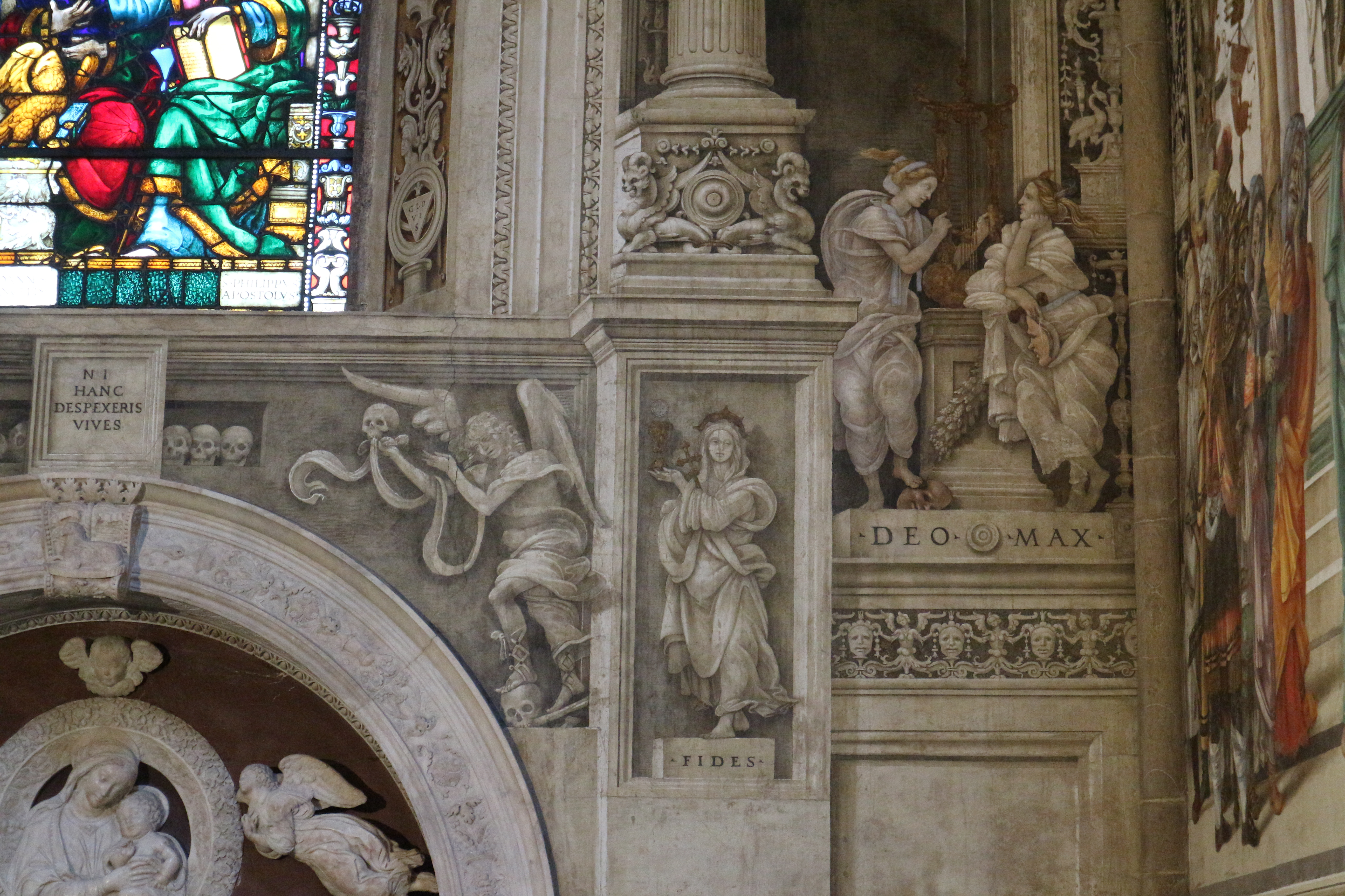 Dettaglio delle Muse